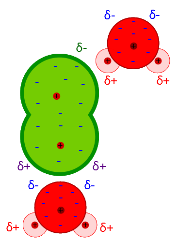 Permanent dipole-induced dipole interaction between water and chlorine molecules (Debye force). Water permanent dipoles in red & blue, induced dipoles in green & purple.